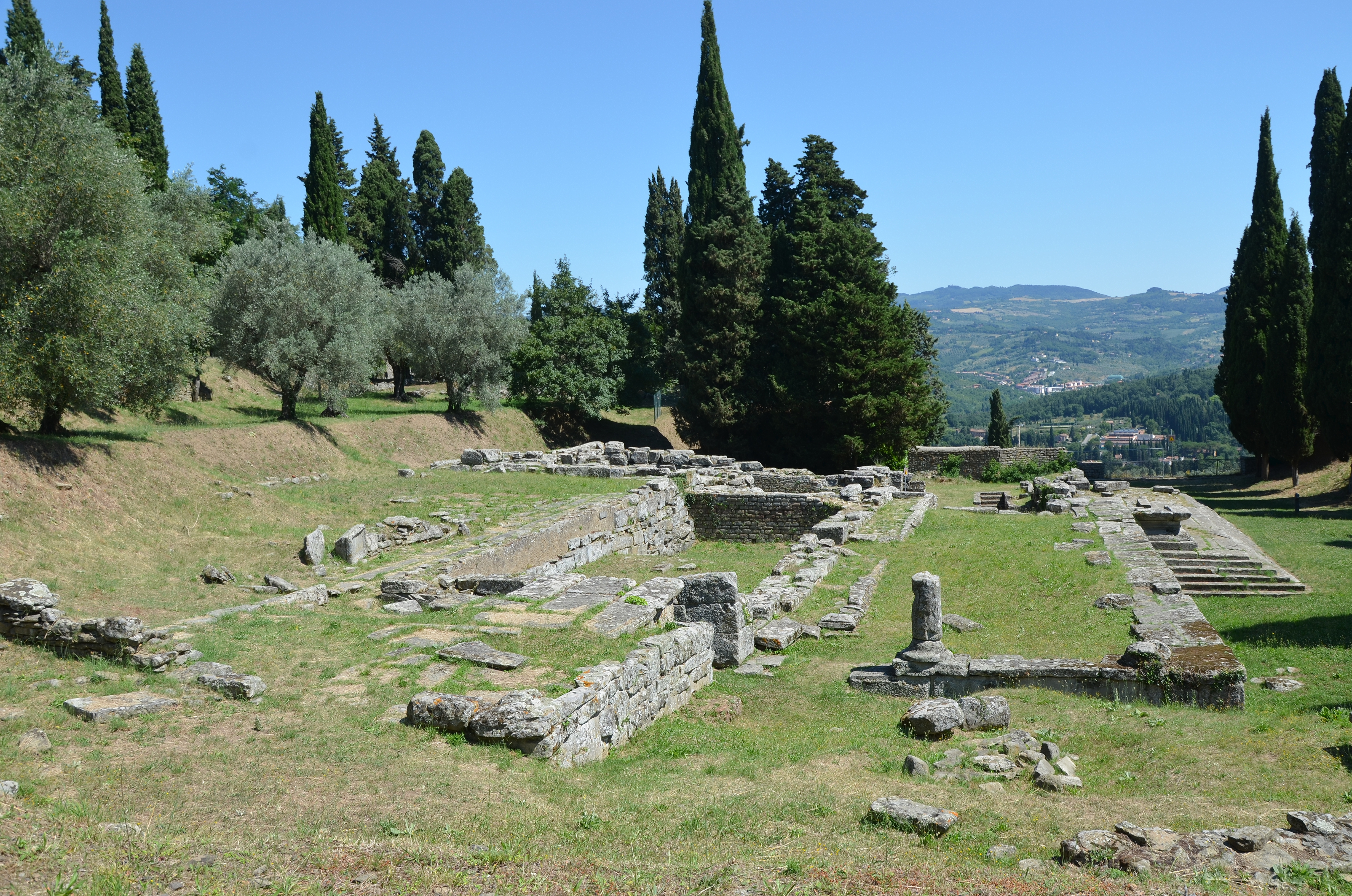 The Temple stands opposite the spa. In Roman times, the two were linked by a road. There was a pre-Roman temple, a building from the Etruscan era built around the late 4th Century B.C. which was much smaller and simpler in layout with a single cell – the holy chamber – which housed the image of the divinity. This cell had two adjacent rooms. Outside there was a colonnade accessed by climbing up steps that still exist today. The floor was in beaten earth and the walls were coated with red plaster. The votive offerings came from the cell and comprised small bronzes and coins now exhibited in the museum. There was an altar in front of the temple. The Etruscan building was roofed in flat and rounded tiles and its gable had a relief decoration very little of which still remains. It is thought that the temple was dedicated to a beneficial divinity, perhaps Minerva. This building was destroyed by fire in the first Century B.C. when the Romans conquered Fiesole and a new, bigger temple was built in its place. On the southern side there was a rectangular area, the stoà, for pilgrims to rest. Indeed in ancient times only the priest was allowed inside the temple.